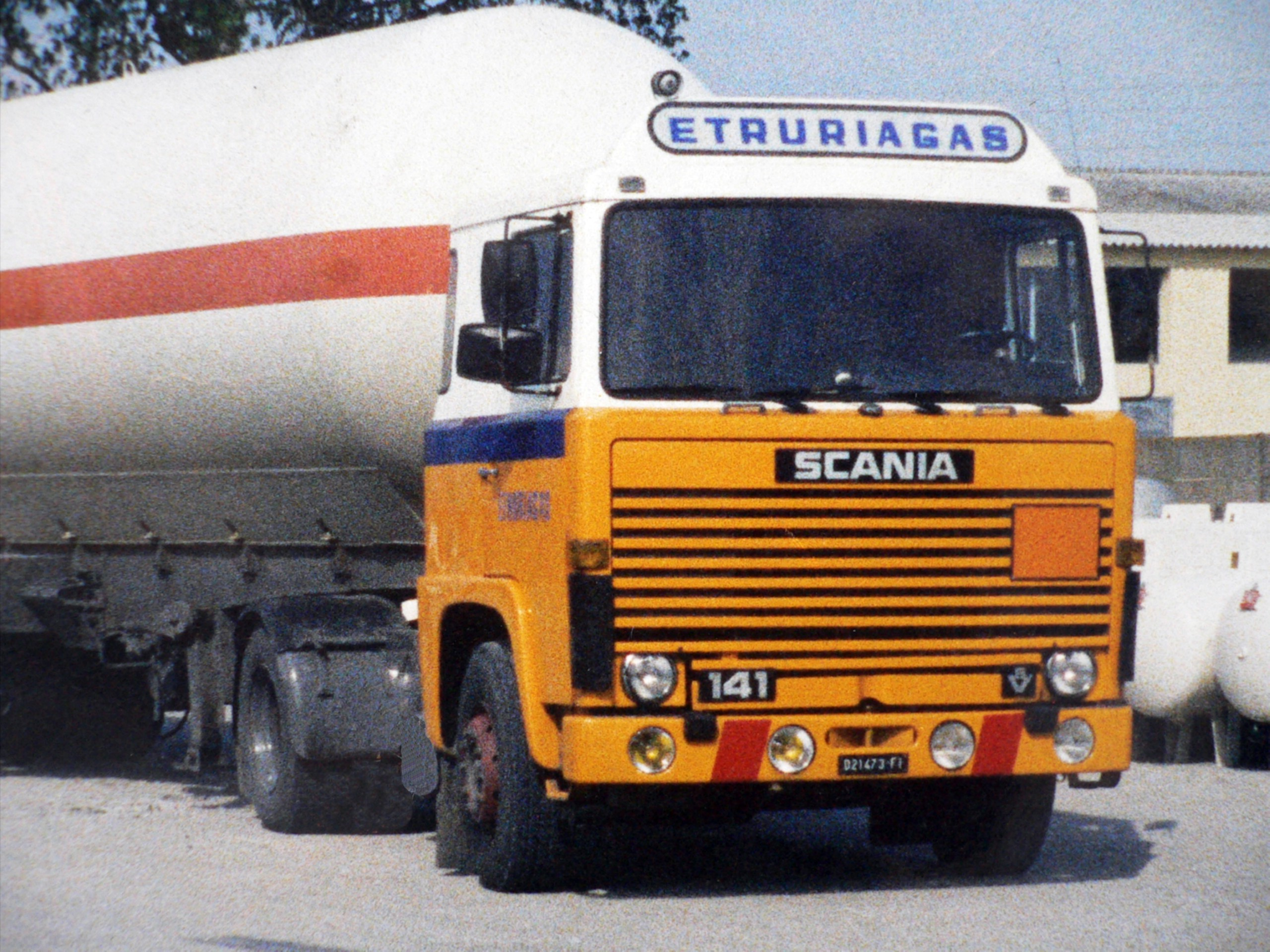 Truck Scania old model 141